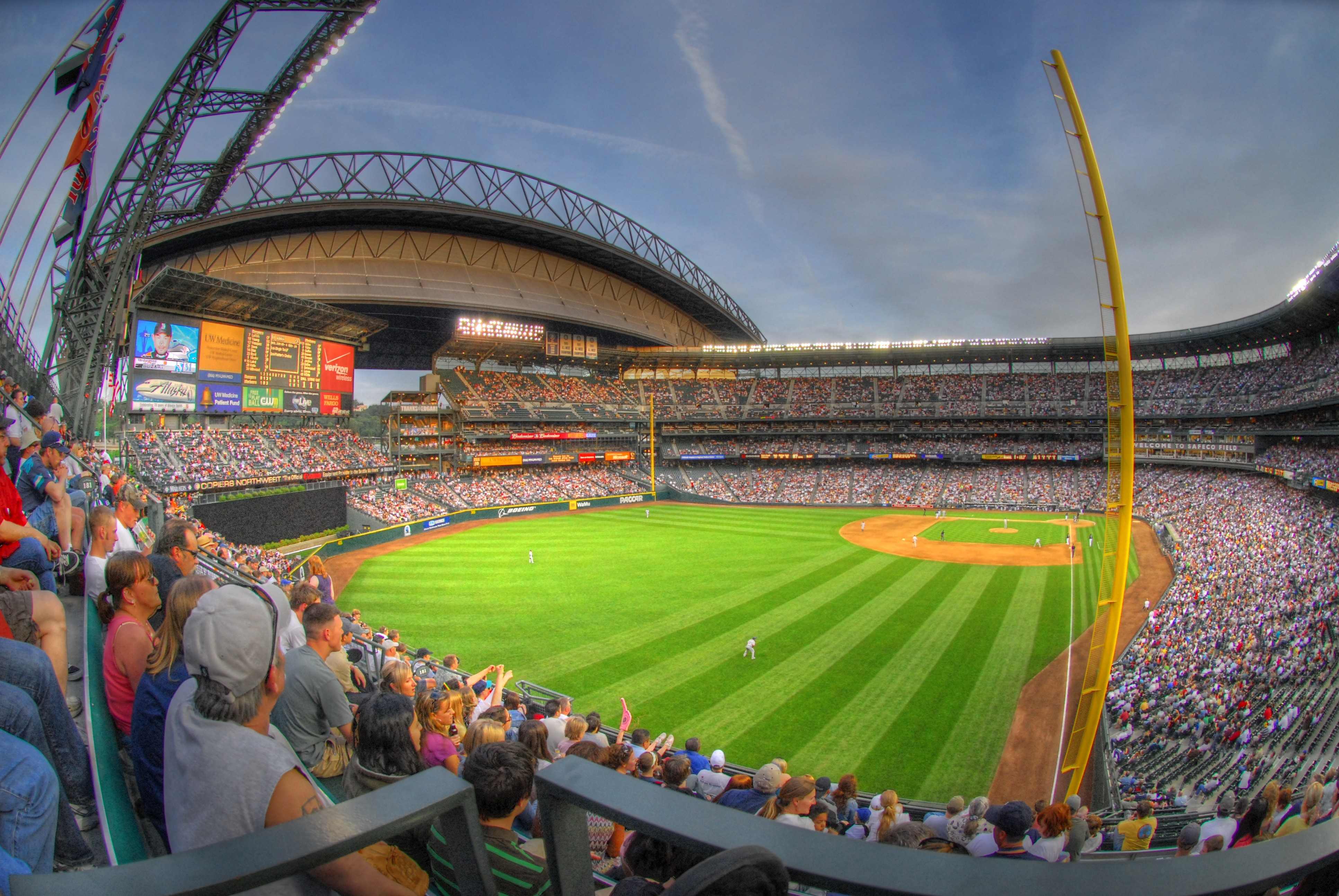 Safeco Field, home of the Mariners, Seattle